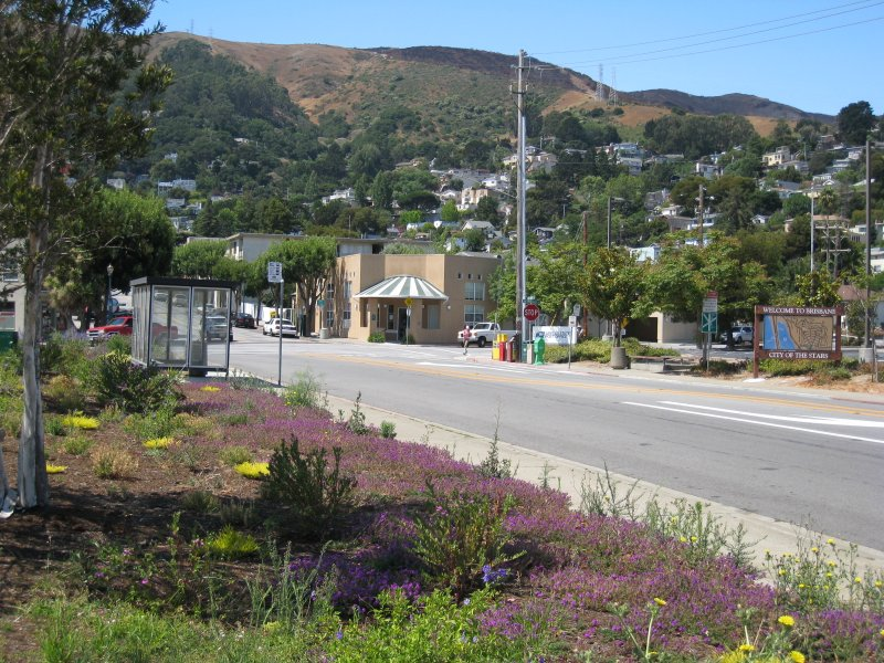 Downtown Brisbane, California, USA Photo was taken by me on location, and is licensed under the Creative Commons Attribution 3.0 License.